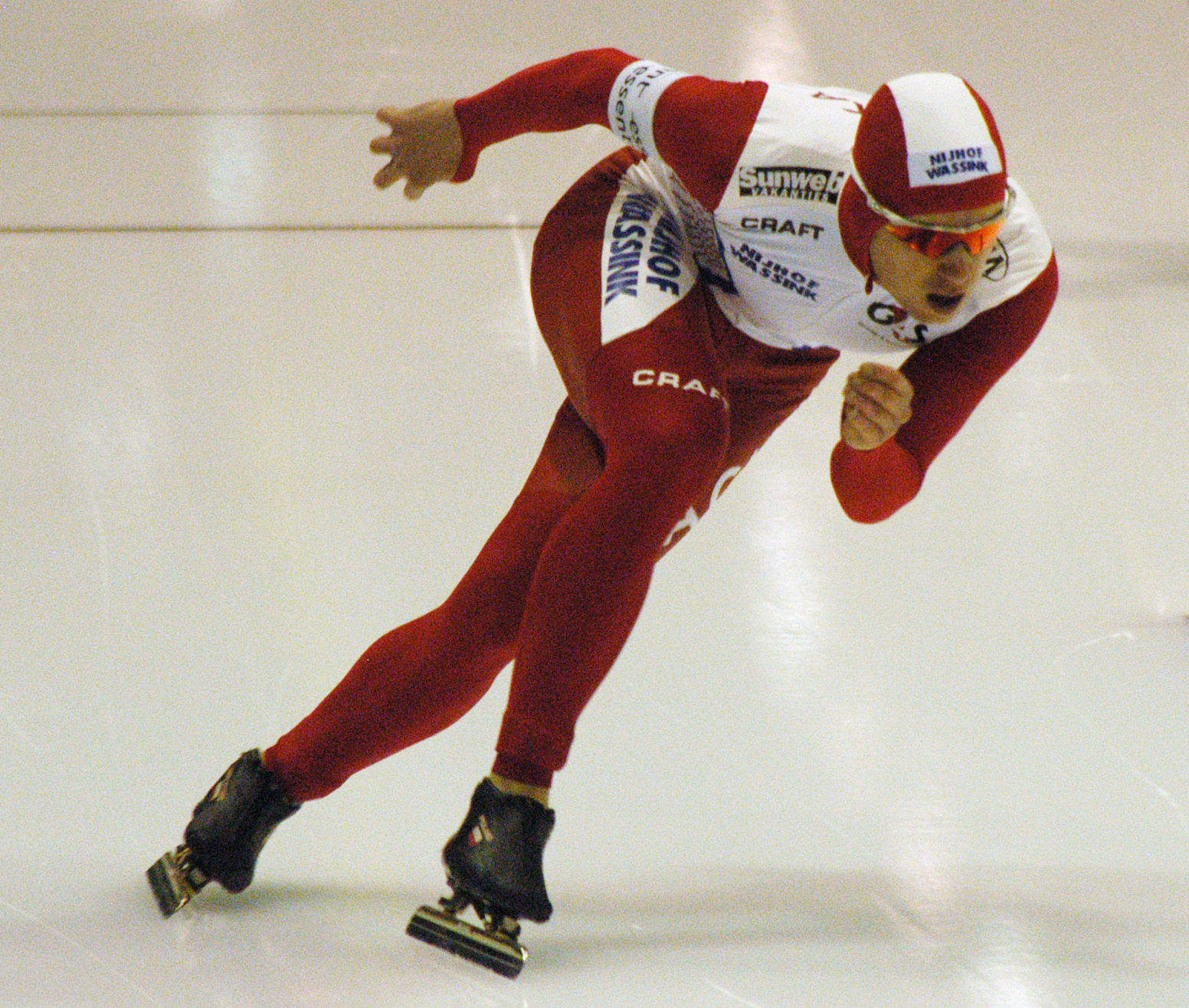 Maciej Ustynowicz (POL) at a world cup speedskating in Heerenveen, the Netherlands.